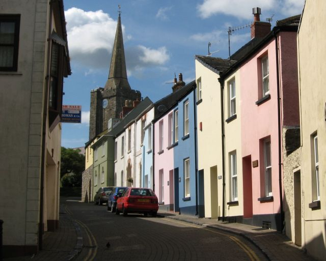 St Mary's Street, Tenby The church is St Mary's.